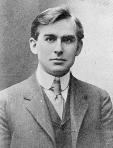 Tenney Frank (1876–1939), American classicist and historian